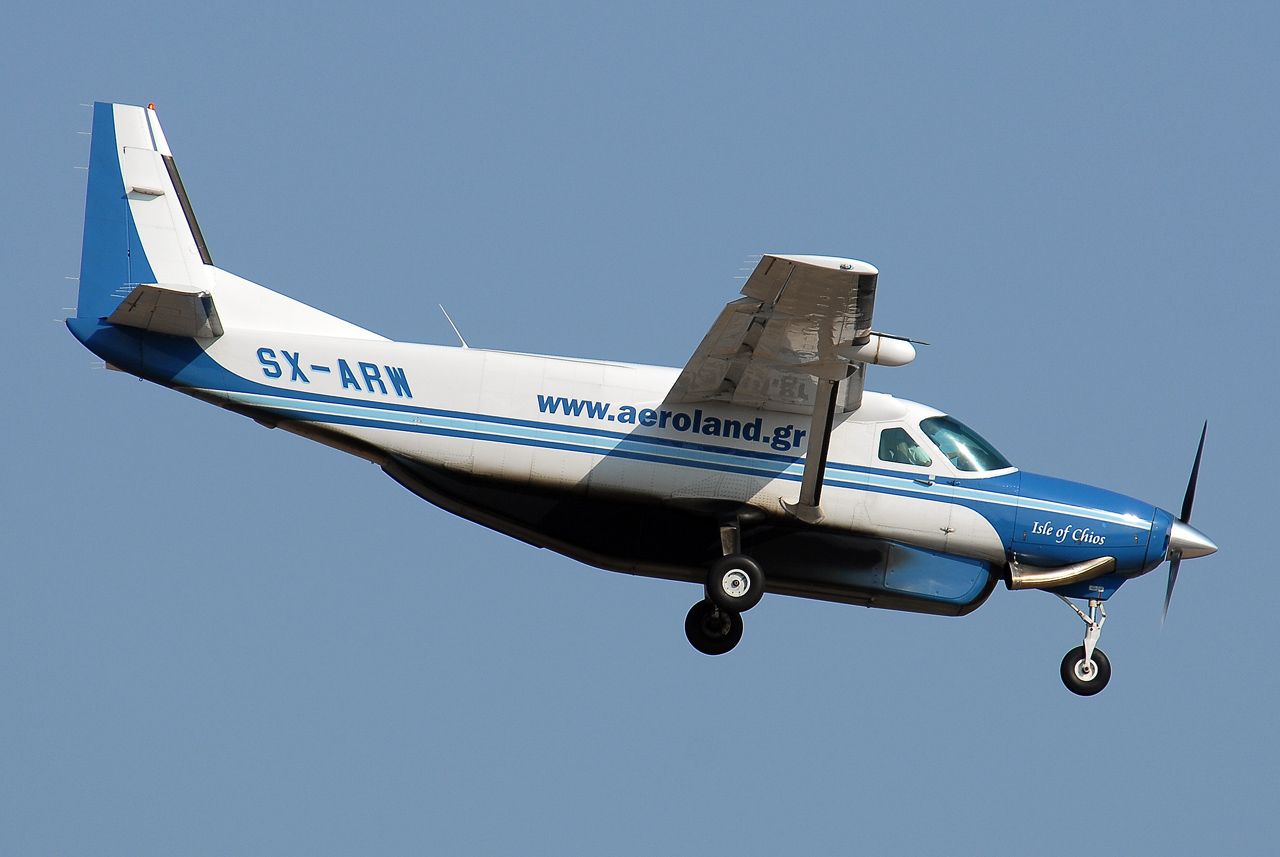 Aircarft Type: Cessna 208-B Grand Caravan c/n: 208B1174 Registration: SX-ARW Operator: Aeroland Airways Owner: Piraeus Leasing SA Photo Location: Athens International Airport (LGAV / ATH)